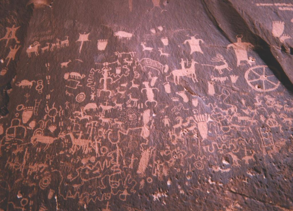 Newspaper Rock taken from - all photos from this site are covered under GFDL.